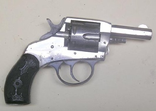 H&R The American Double Action Image is released into the Public Domain for any and all uses. Image is released into the Public domain for any and all uses.